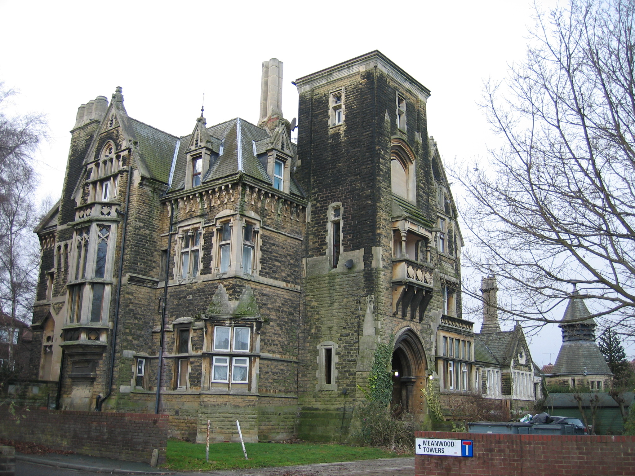 Meanwood Towers, Leeds LS6 4PL, UK. Designed by E. W. Pugin 1867